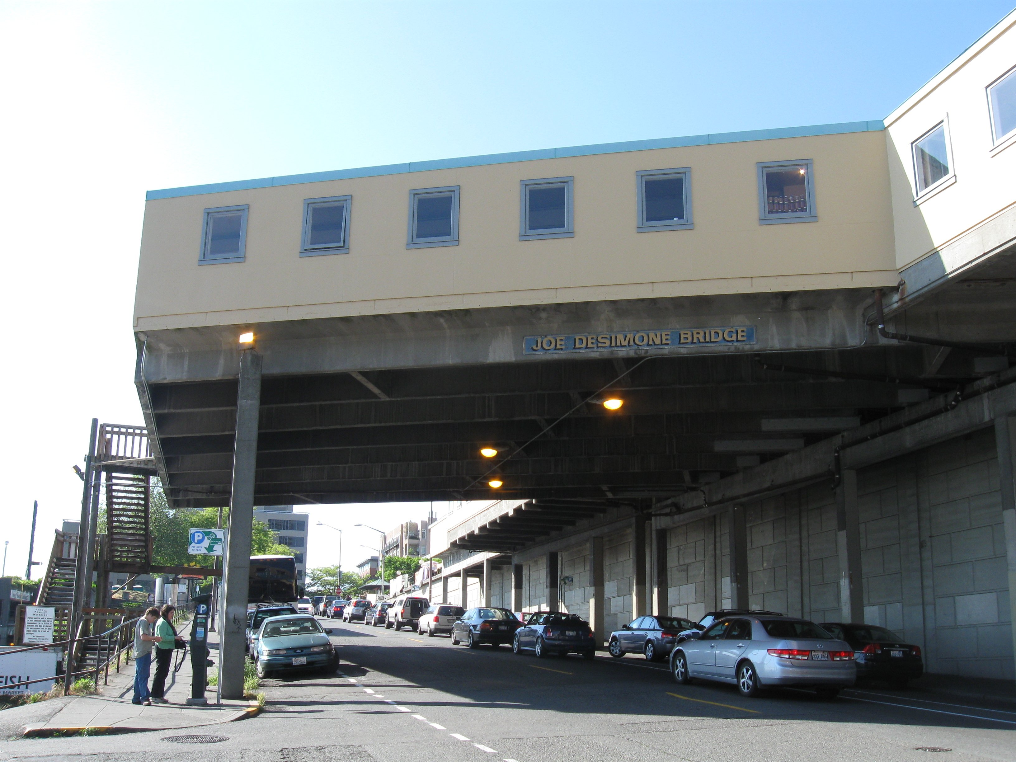 Pike Place Market Desimone bridge, taken from Western Avenue